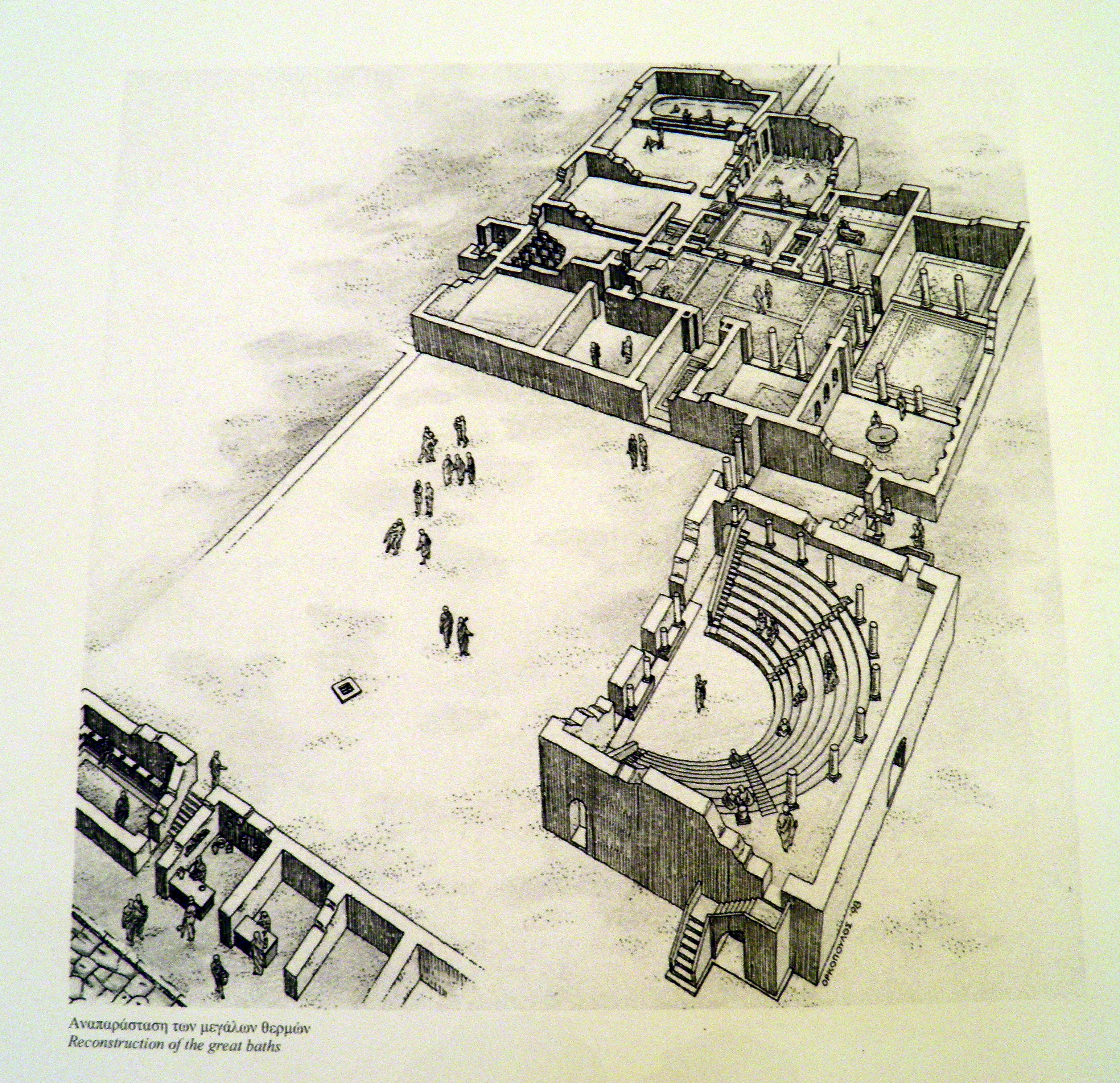 Reconstruction drawing of the great baths, Archaeological Museum, Dion